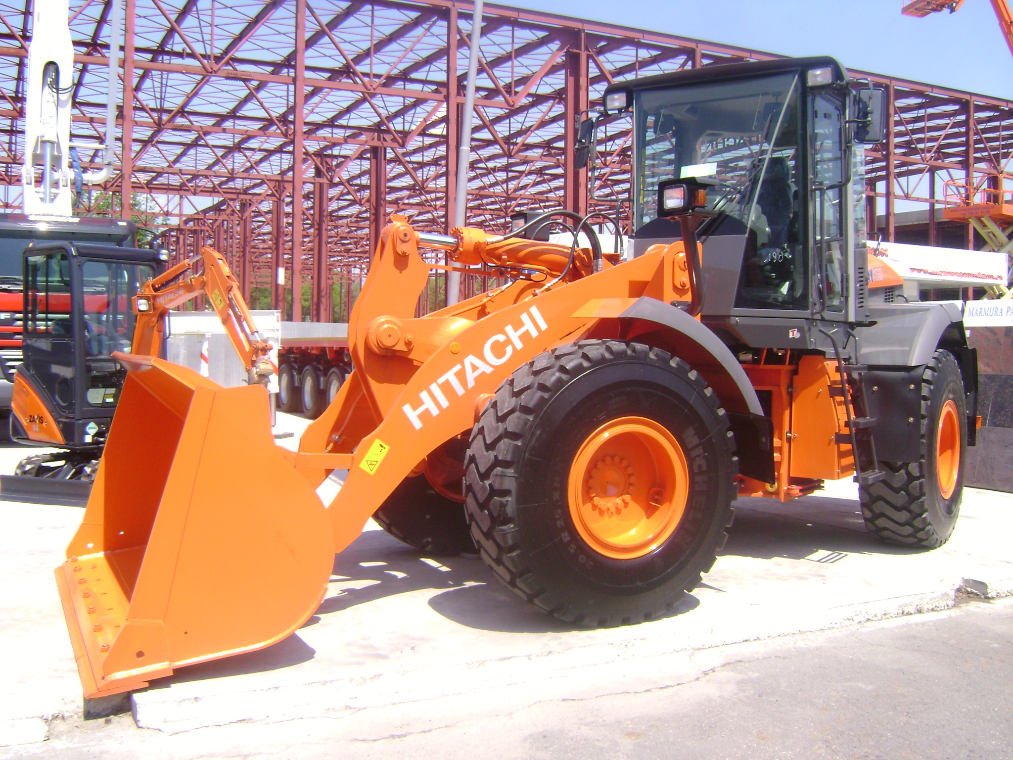 Hitachi ZW150 wheel loader seen in Bucharest, Romania at Romexpo during the 2010 Construct Expo Utilaje international exhibition for construction equipment, machinery and hand tools